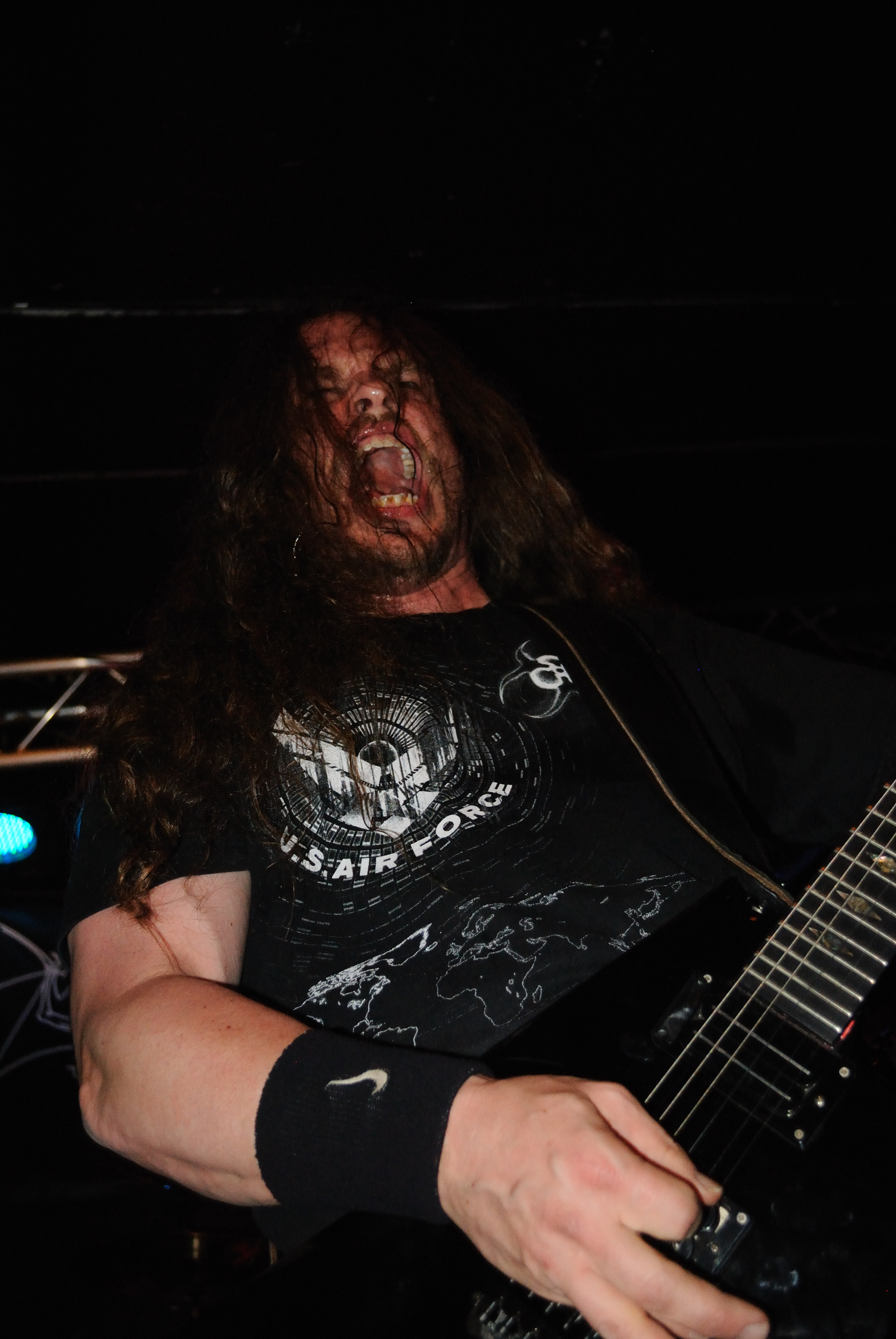 Dingbatz Clifton, NJ March 8th 2012